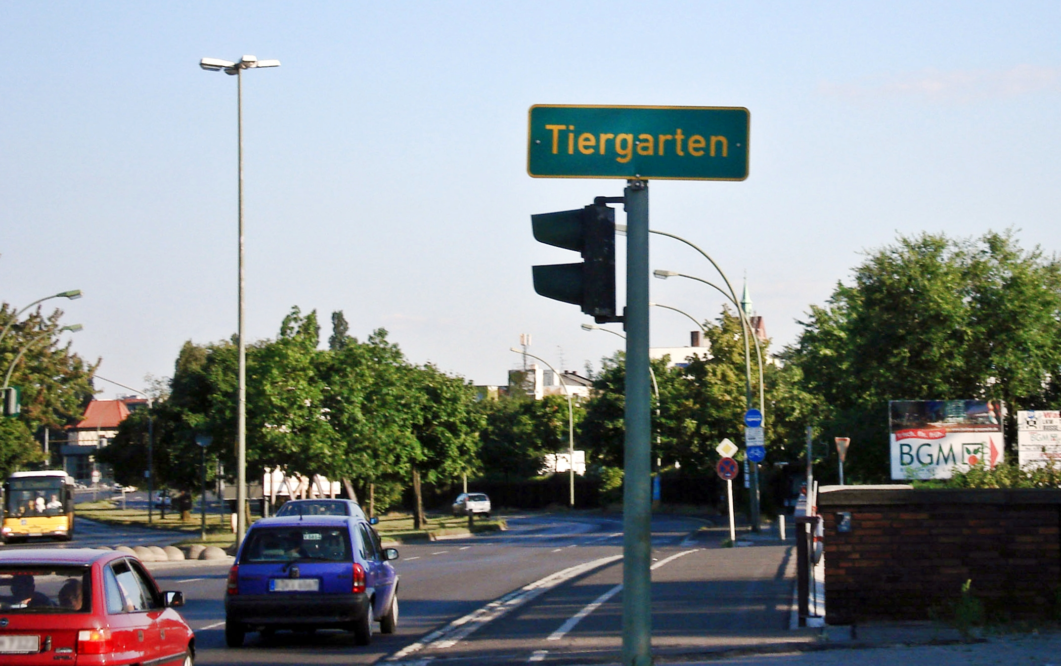 Road sign referring to the former borough "Tiergarten" in Berlin